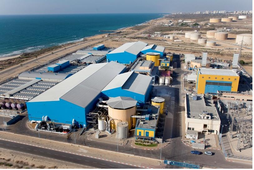 Ashqelon desalination plant